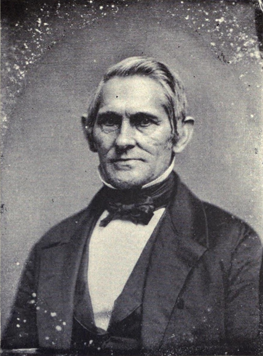 Daguerreotype of Hiram Bingham I (1789–1869), 1852.